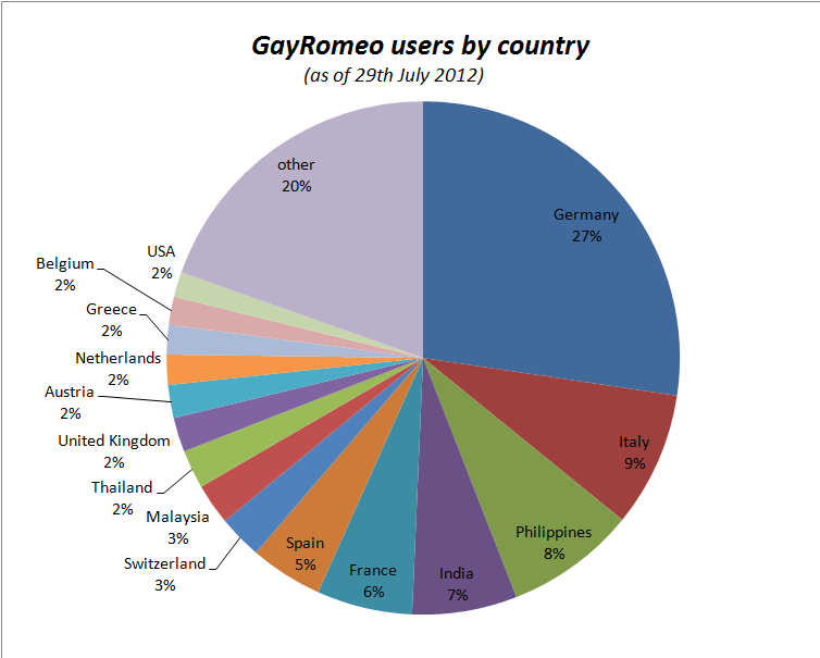 the image has a pie chart showing user distribution by country, as of 29th july 2012.